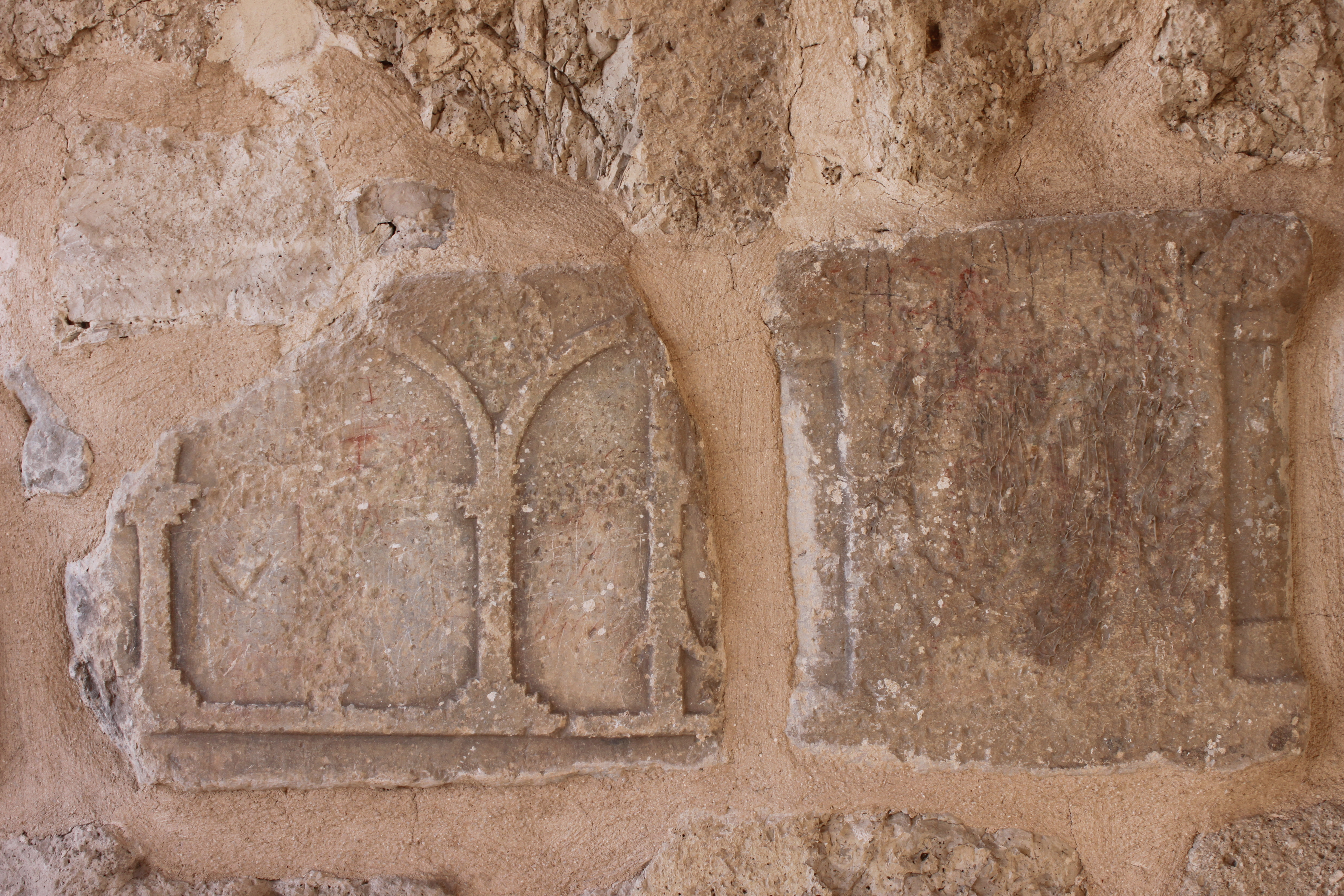 Obruk Hanı, spolia 6